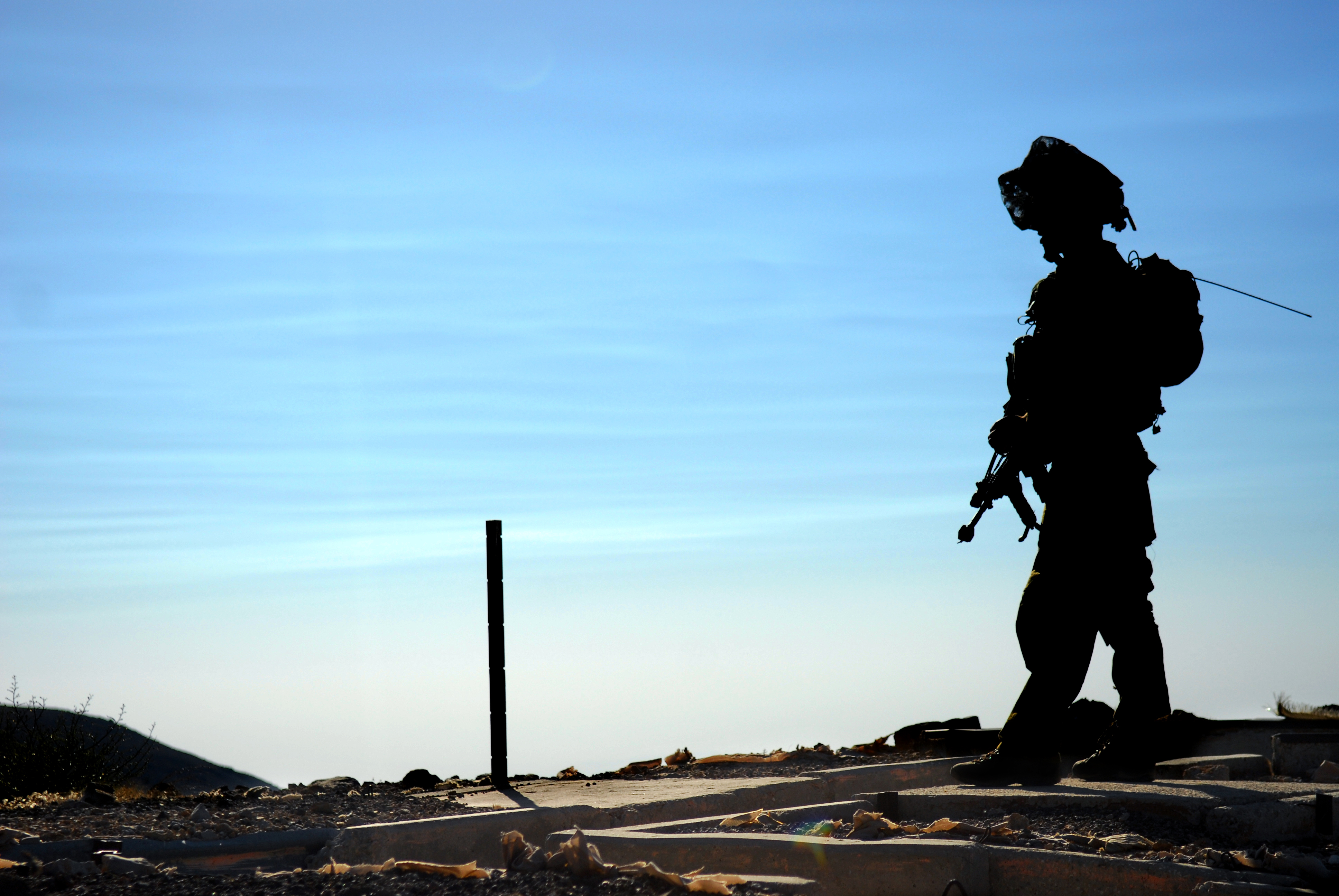 July 9, 2008 An Israeli soldier guards his base during sunset.